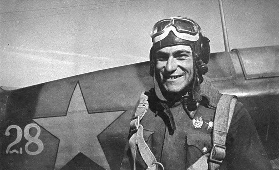 Fighter-pilot Amet-khan Sultan in front of his Yak-7 fighter in Stalingrad. He is seen wearing an Order of the Red Banner and an Order of the Red Star.